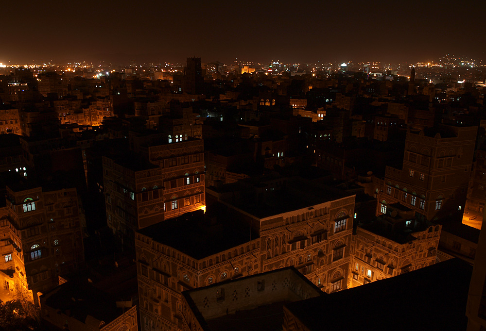 Old Sana'a at night